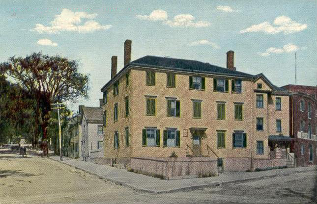 Birthplace of Henry Wadsworth Longfellow, Portland, Maine. Located on the corner of Hancock and Fore streets, the house was demolished in 1955.